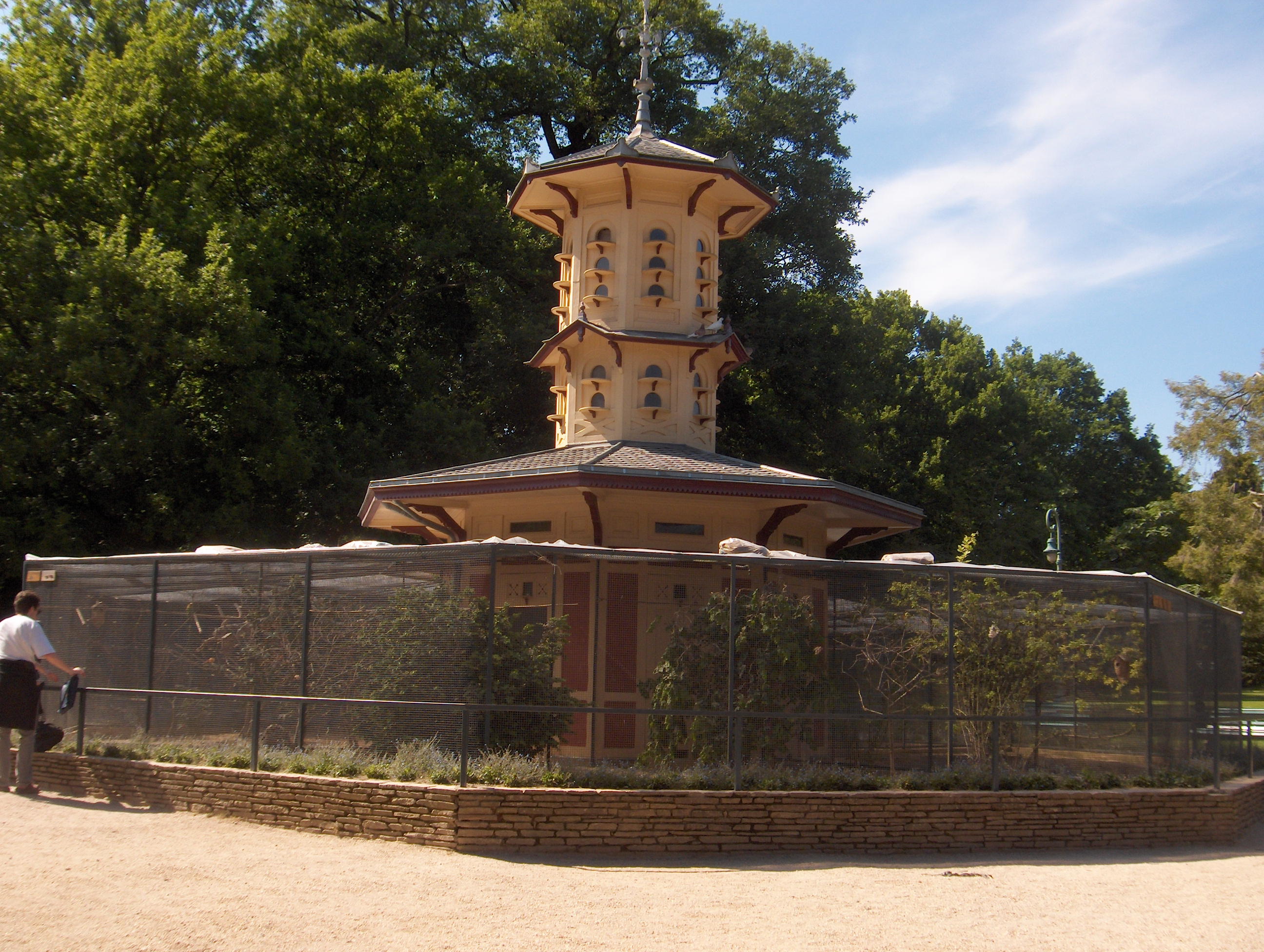 Bird cage in the Thabor park in Rennes, France.